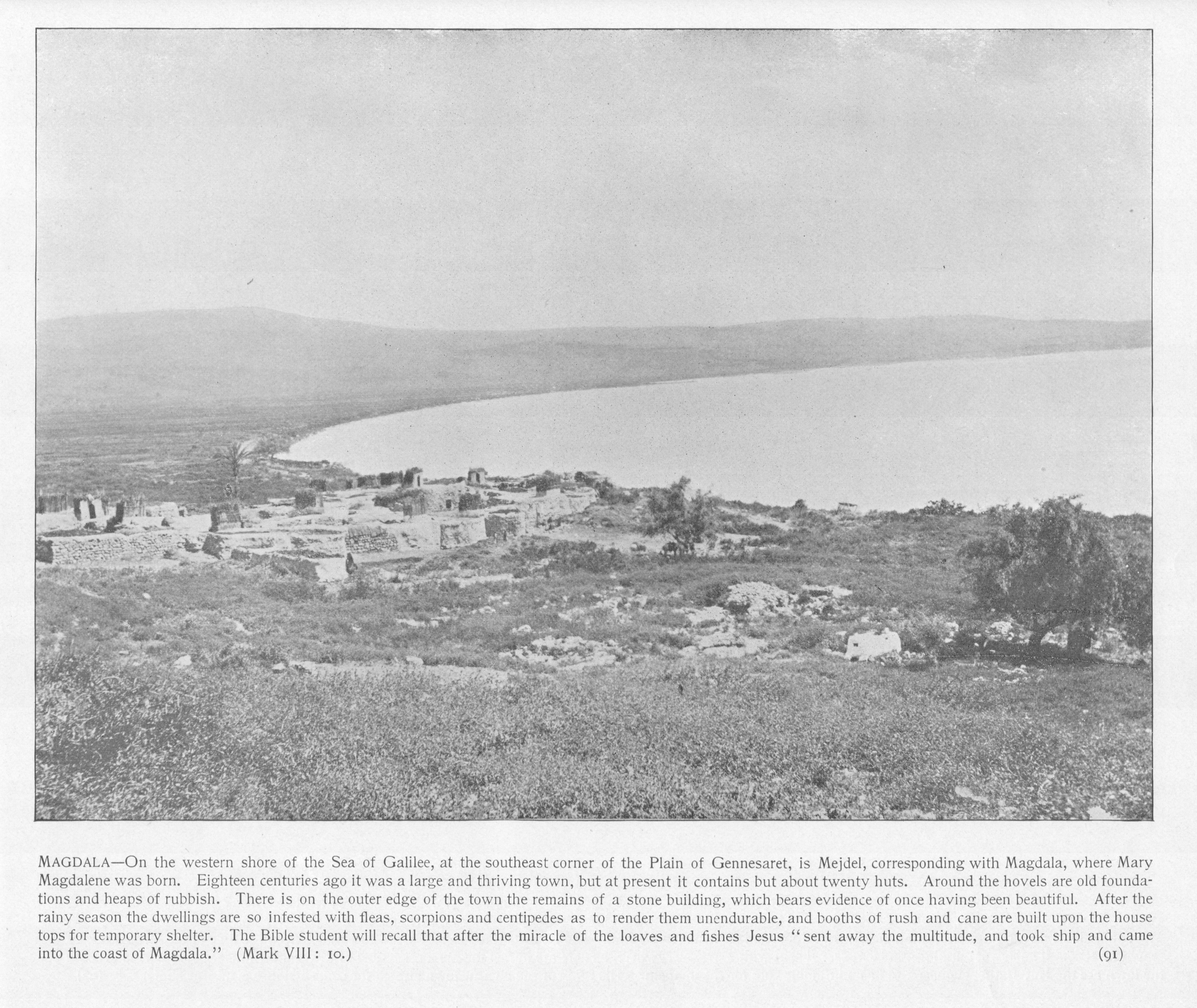 Sea of Galilee, Magdala. 91.Holy land photographed. Daniel B. Shepp. 1894.jpg